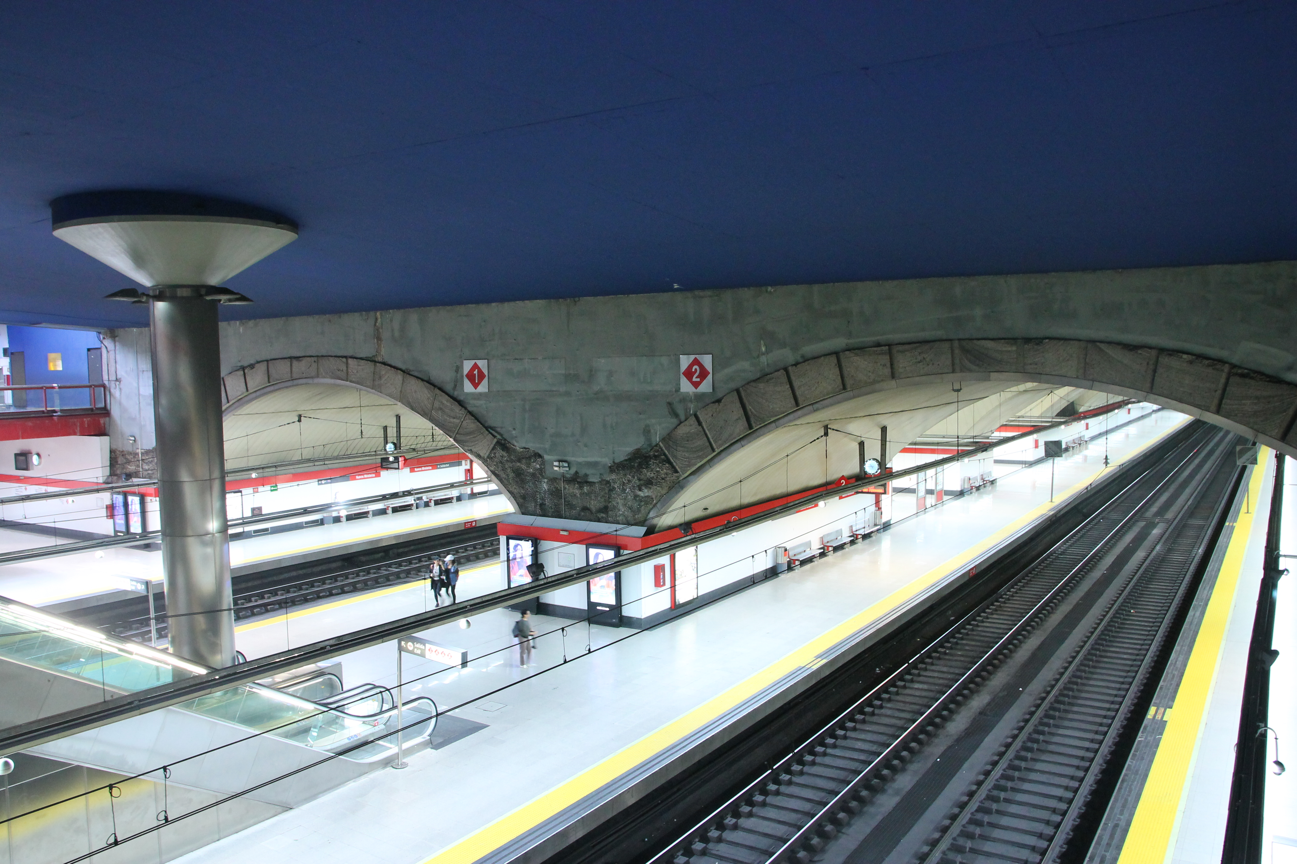 Nuevos Ministerios station, Cercanías, platforms 1 and 2